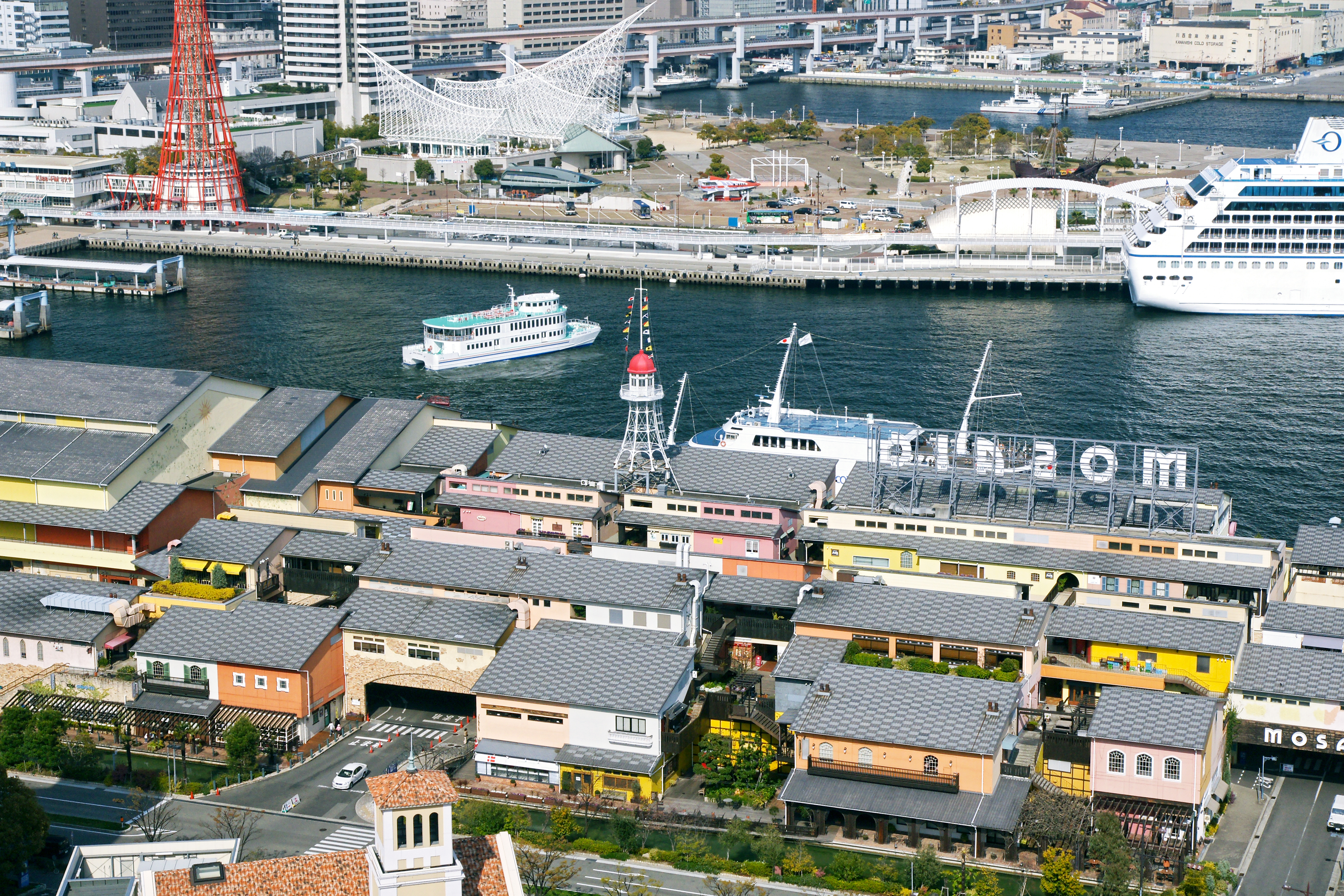 "MOSAIC" of Harborland in Kobe, Hyogo prefecture, Japan